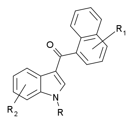 Markush structure of naphthoylindoles